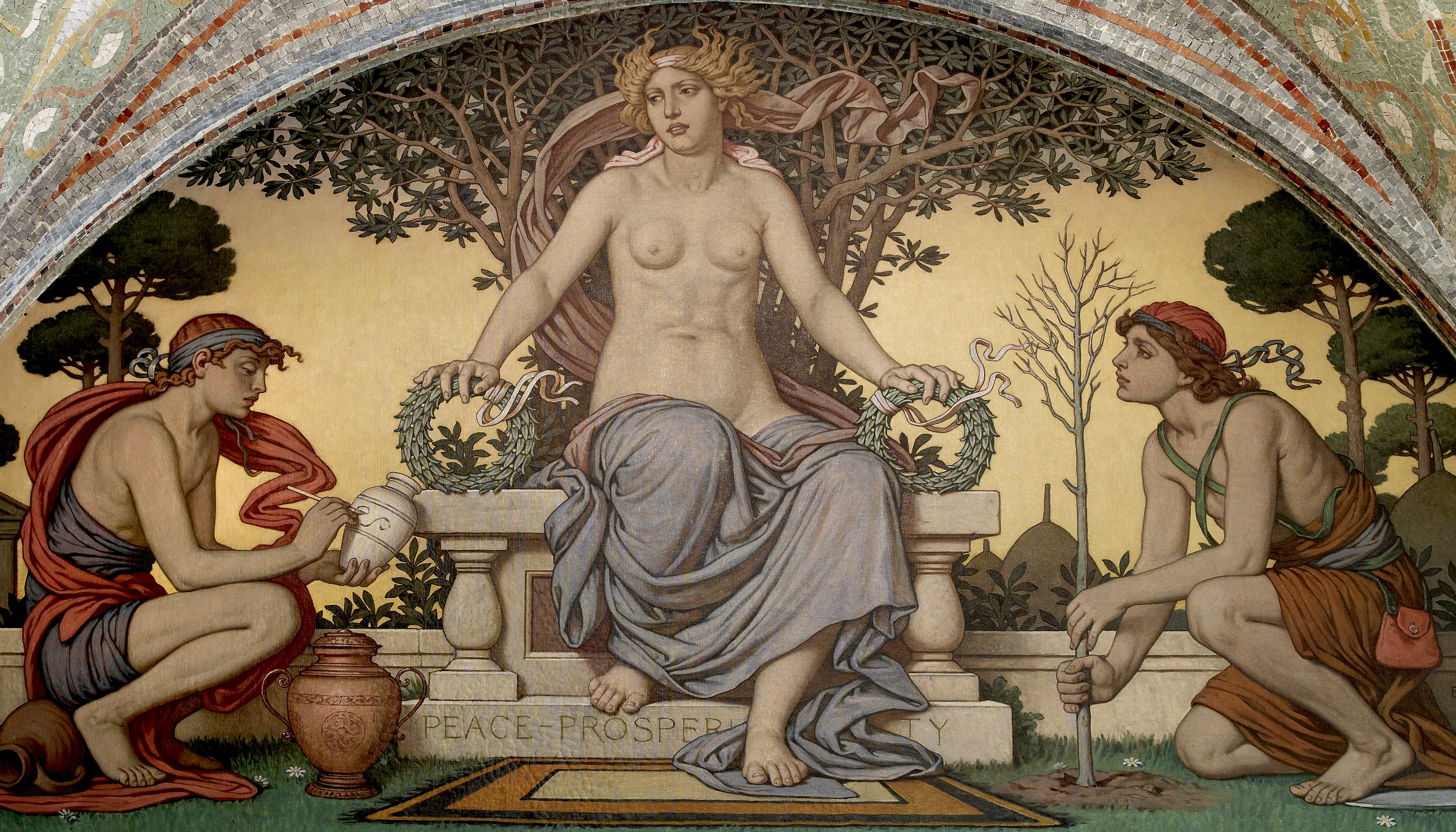 Detail from Peace and Prosperity. Mural by Elihu Vedder. Lobby to Main Reading Room, Library of Congress Thomas Jefferson Building, Washington, D.C. Main figure is seated atop a pedestal saying "PEACE–PROSPERITY". Artist's signature is "ELIHU VEDDER / 1896".